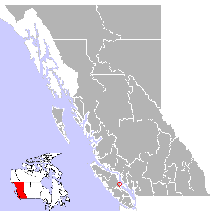 Location of Courtenay